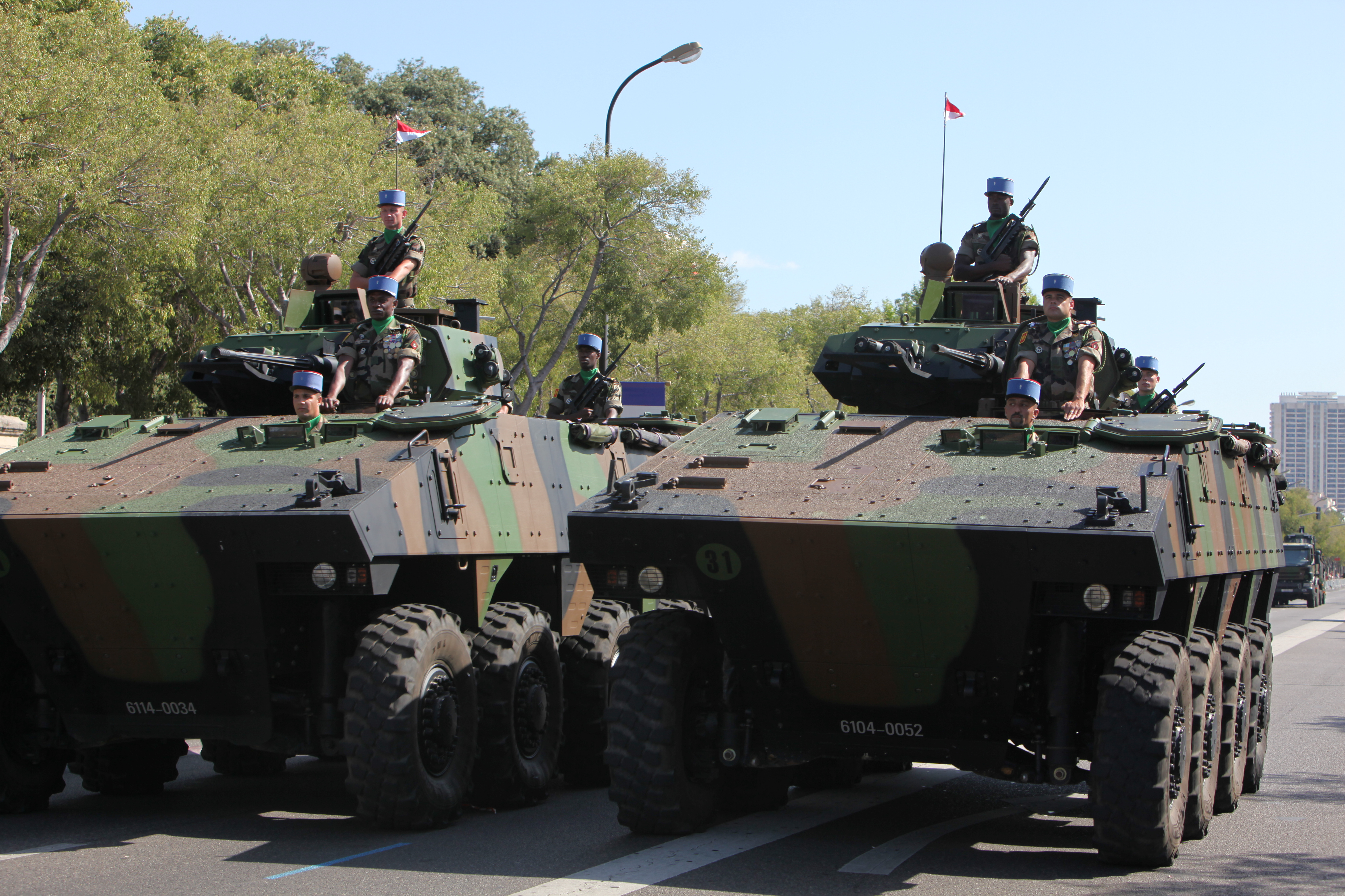 Véhicule blindé de combat d'infanterie of the 1er régiment de chasseurs d'Afrique during the military parade of 14 July 2012 in Marseille. The making of this document was supported by Wikimédia France. (Submit your project!)